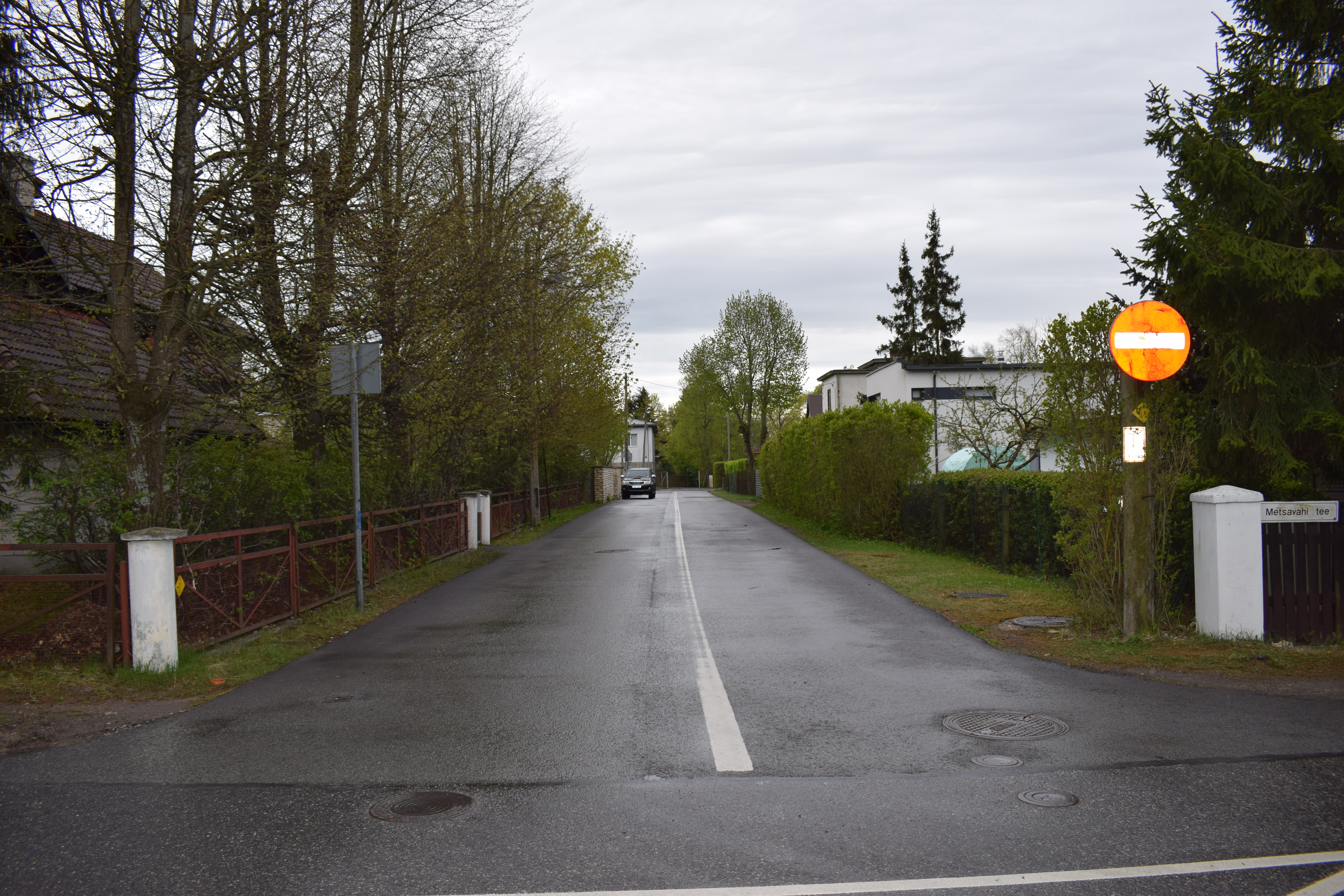 Raiduri tee